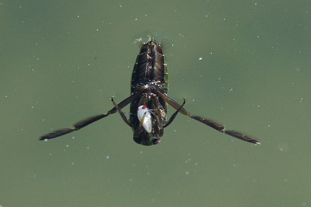 Picture taken in Commanster, Belgian High Ardennes . Species: Notonecta glauca